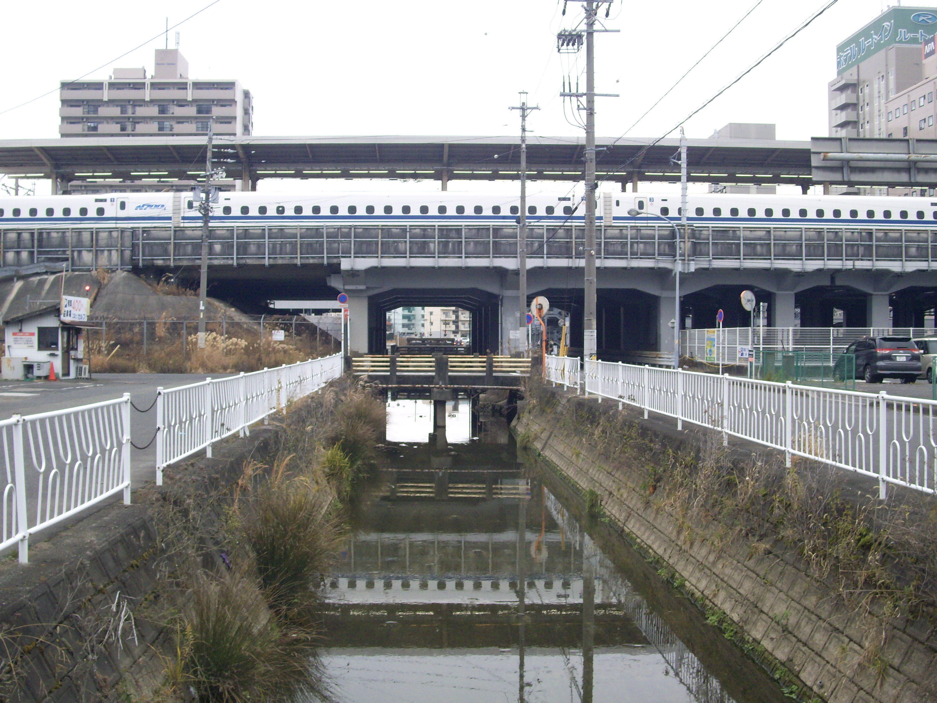 Gifu-Hashima Station in Gifu Prefecture, Japan